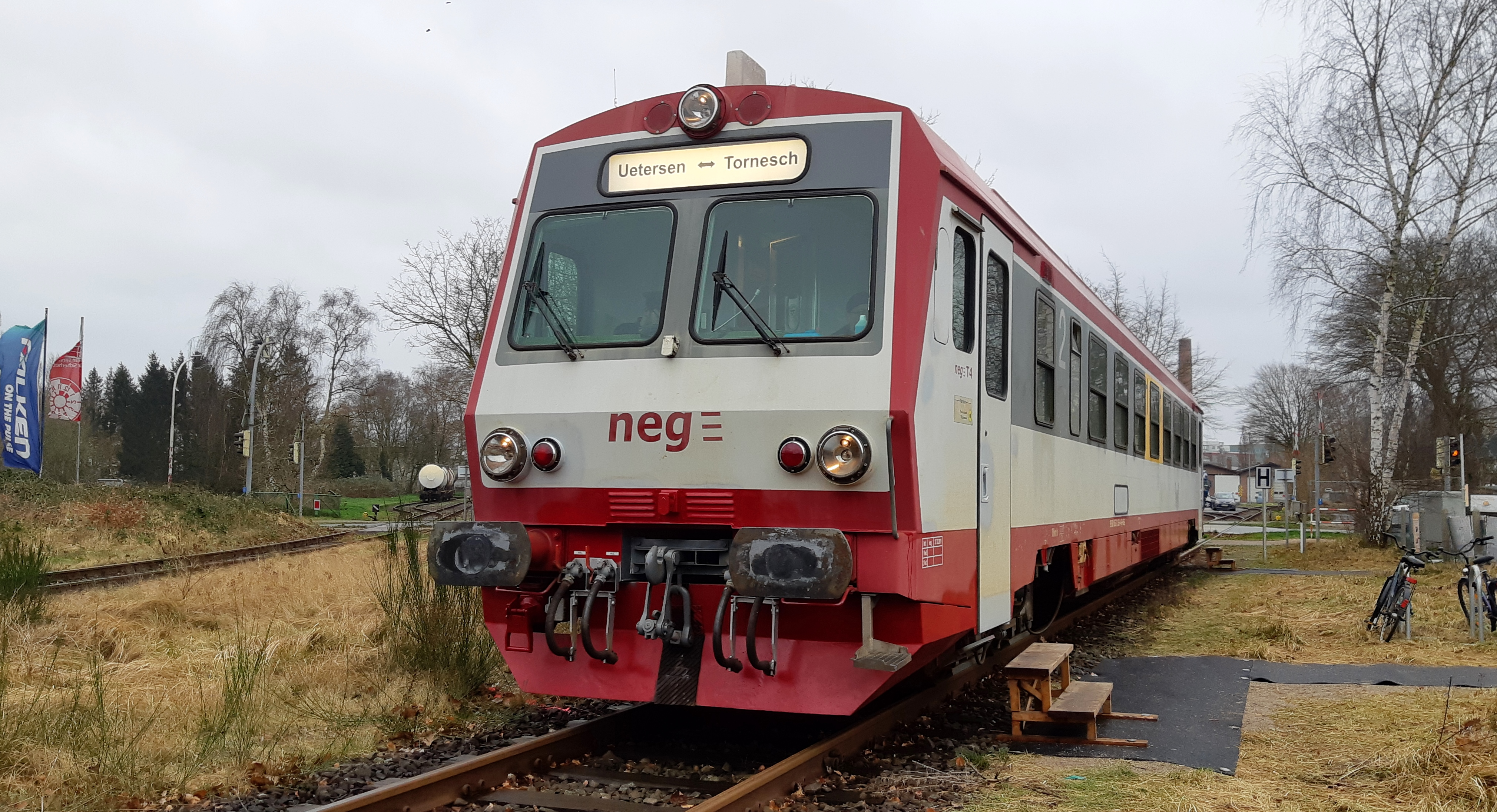 neg railcar 627 103 in Uetersen